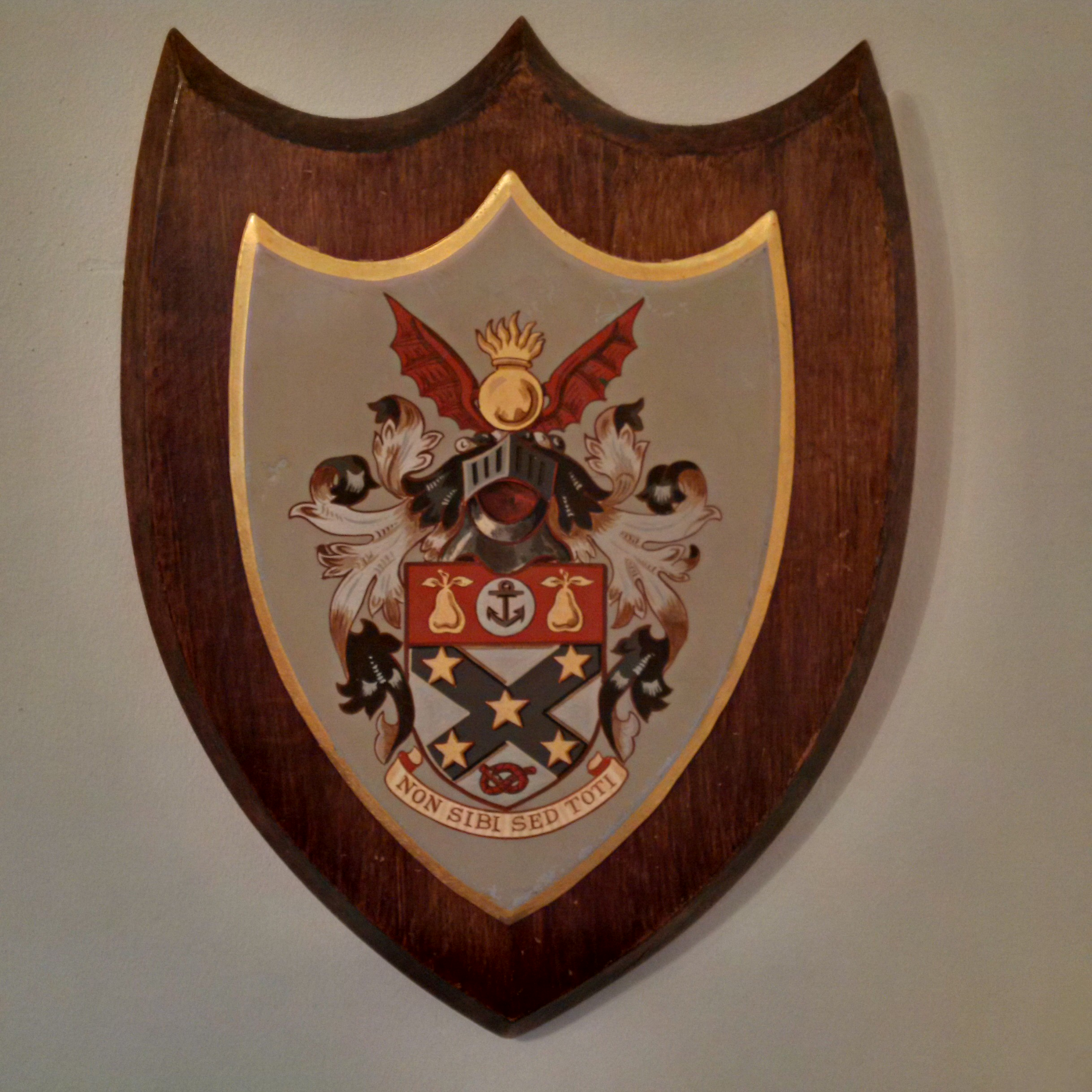 Sir Arthur Smout, Coat of ArmsThe Latin motto, "Non Sibi Sed Toti", means "Not For Self But For All".